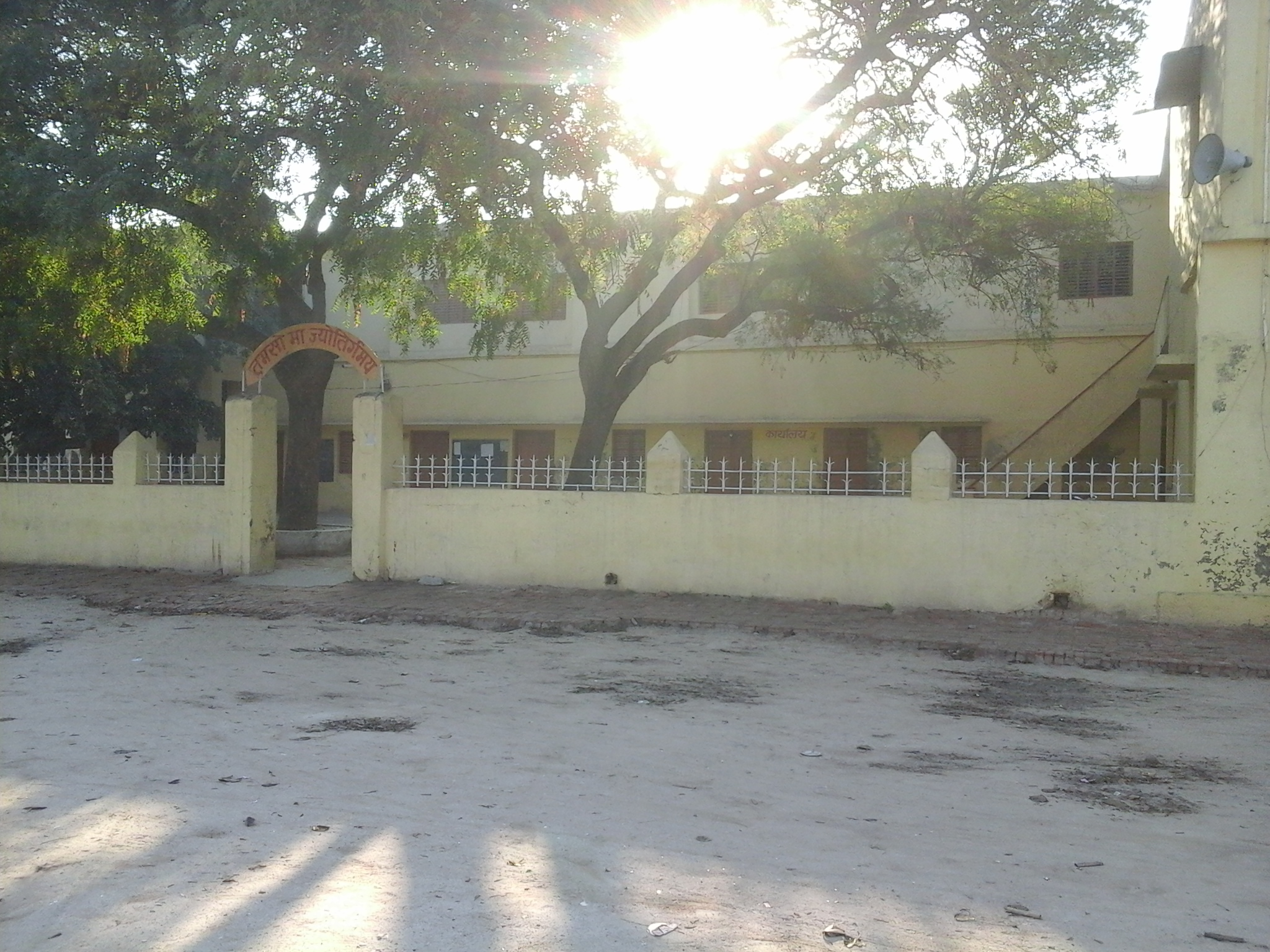 Internal view of Akbarpur Inter College Akarpur Kanpur Dehat ,Uttar Pradesh , India.